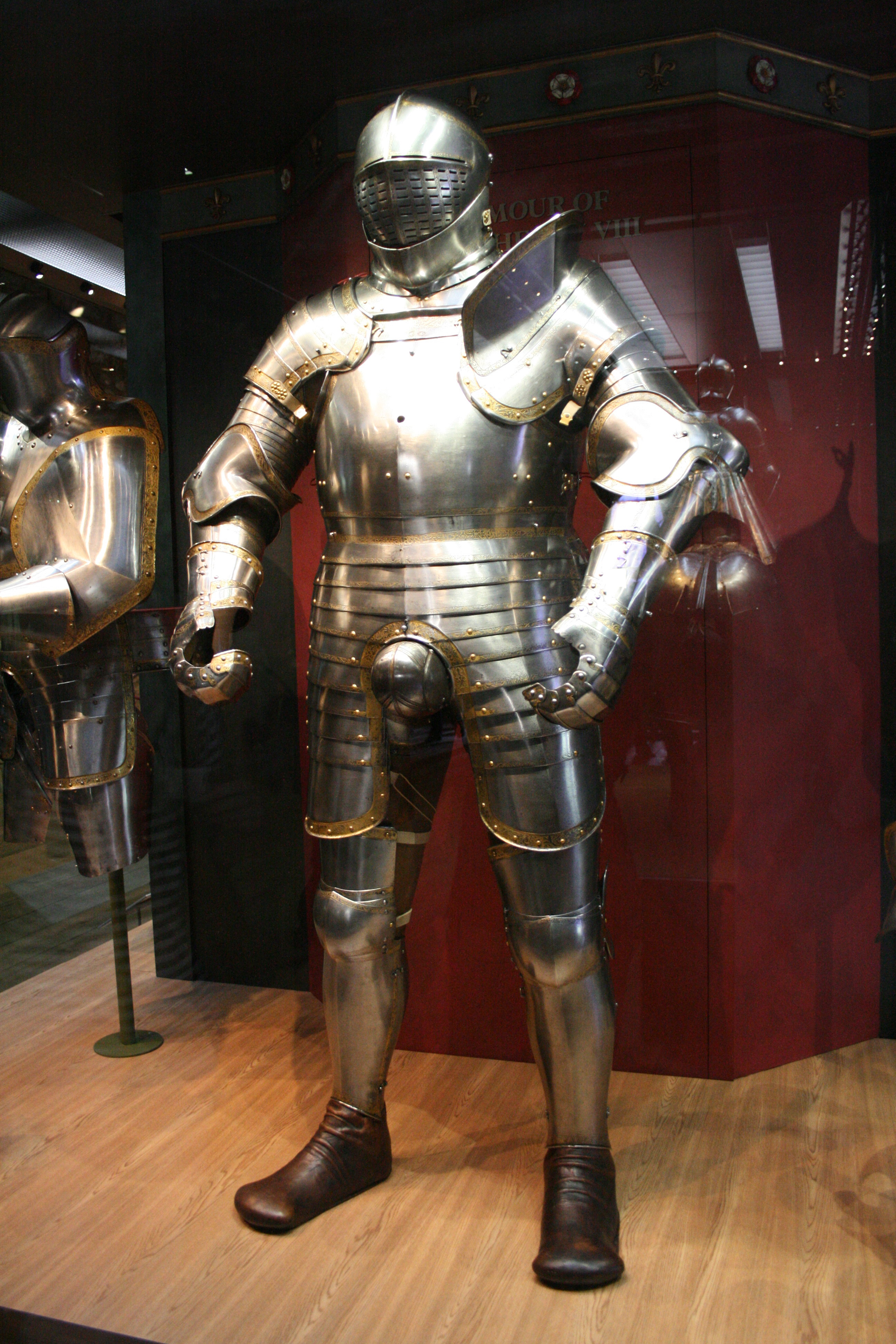 Tower of London, White Tower, first floor: Royal Armouries, armour worn by Henry VIII